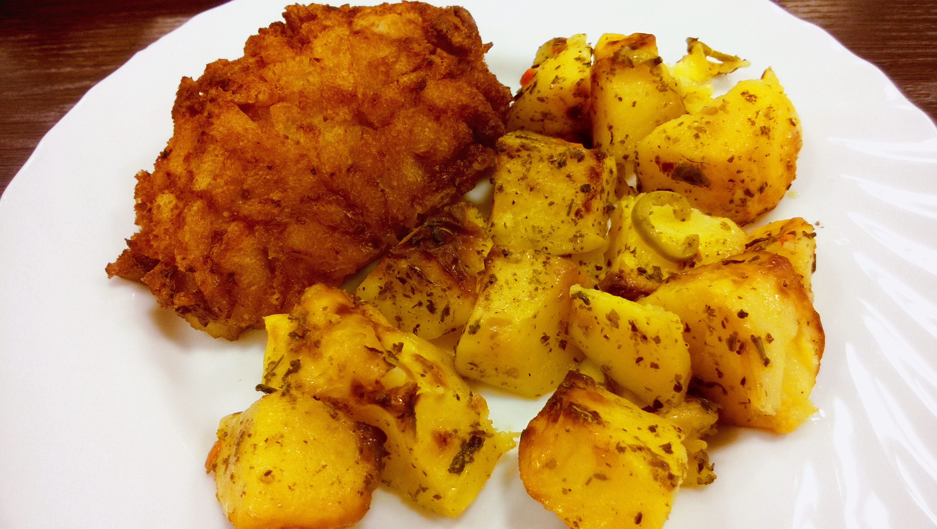 Pozharskaya kotleta with potatoes and olives. Cafe «Olivka» in Novosibirsk.